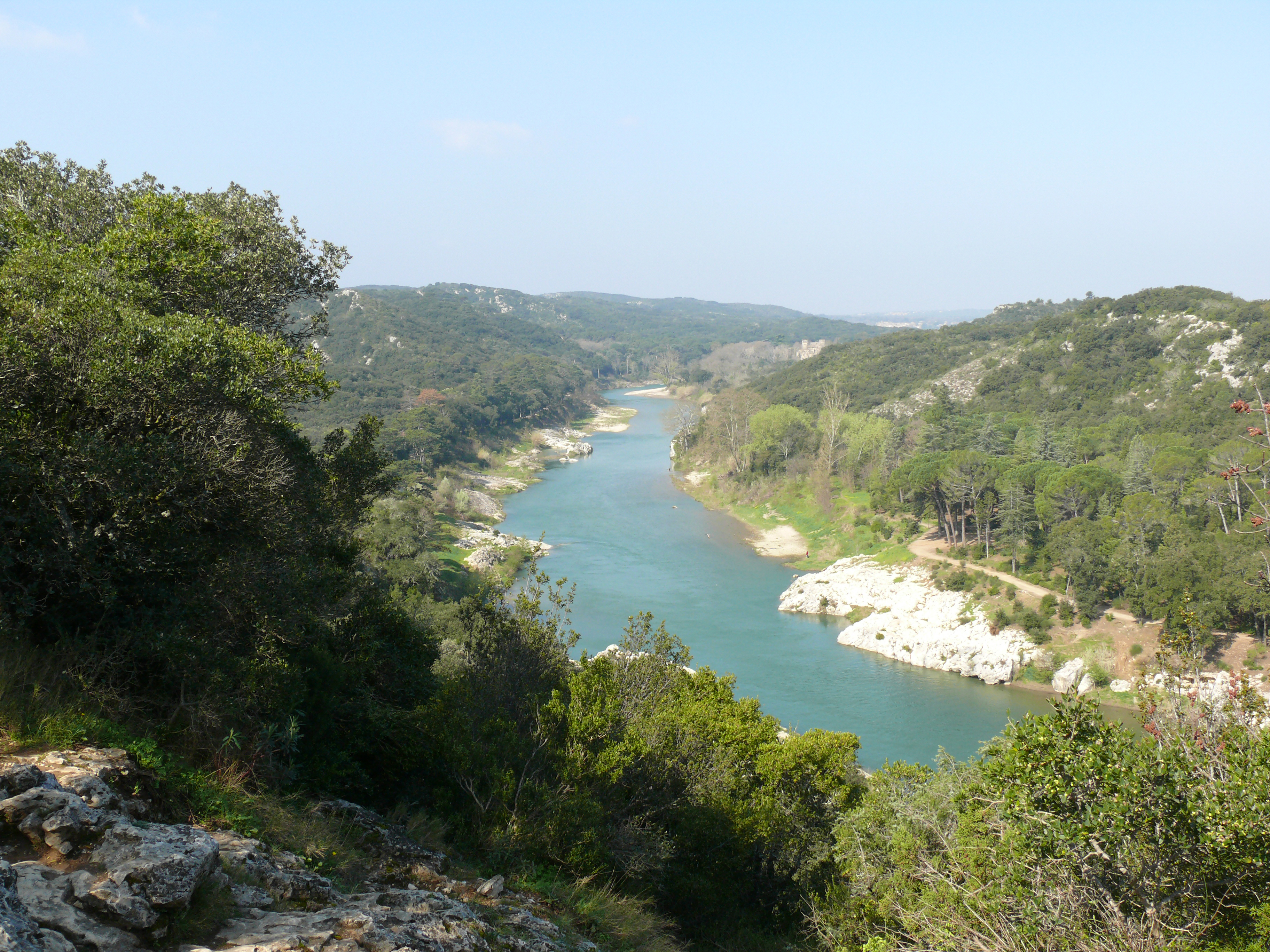 The Gardon or Gard (Occitan and